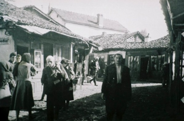 Old Bazaar of Prishtina